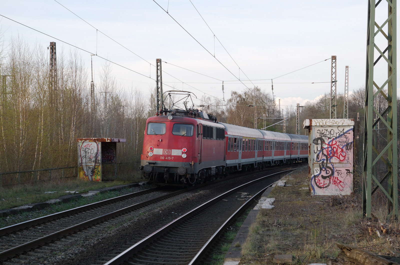 Remains of the station Dortmund-Hoesch 2008 durchfahrendem commuter train, slid through BR 110-415-7 (built in 1966)